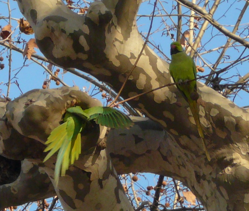 Psittacula krameri in la Rambla, Barcelona (Spain).